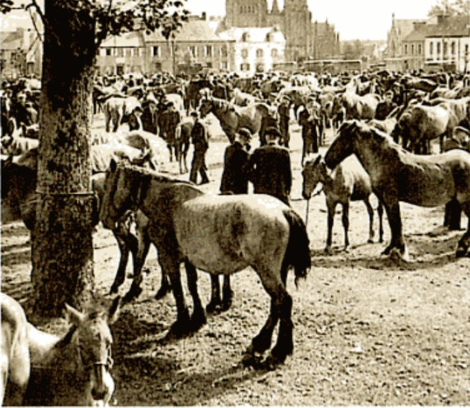 Breton horses in the Finistère around 1900-1910